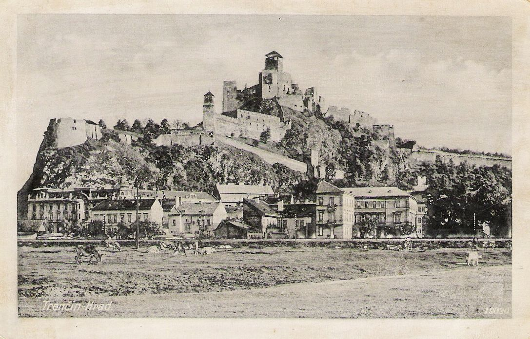 The View of Trenčín (Slovakia) with the Trenčín Castle in the end of 1920s.